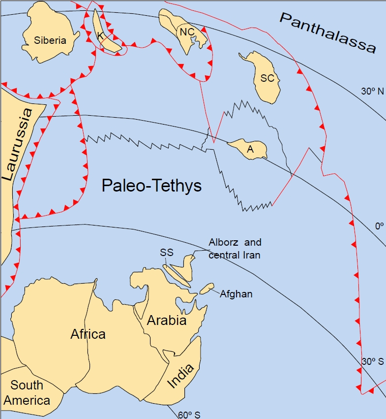 Early Carboniferous paleogeography (~350 Ma) with the Paleo-Tethys and elements of Iranian geology indicated